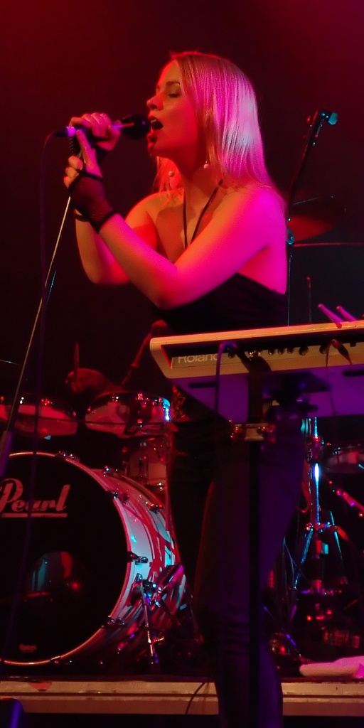 Norwegian DJ/popsinger Annie playing at Teatergarasjen, Bergen, Norway, on 5th of May 2005.